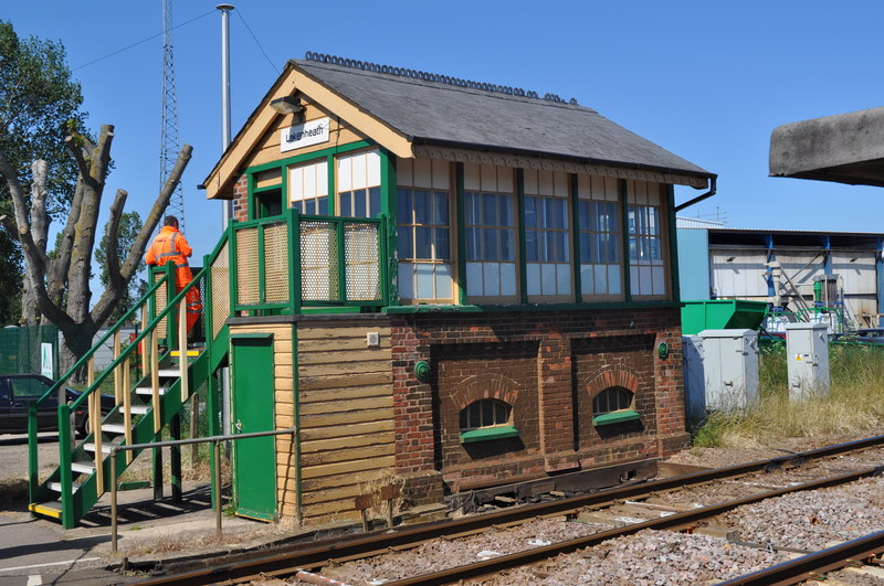 Lakenheath Signal Box, near to Hockwold Cum Wilton, Norfolk, Great Britain. A view of the signalbox and crossing gates at Lakenheath Railway Station. This is part of the ex Eastern Counties Railway, which had extended its route from Shoreditch to Newport, Essex northwards via Cambridge and Ely to Brandon. Connecting with the Norwich to Brandon Railway in July 1845. Hand operated crossings are a rare find these days, there are still a few in East Anglia but these ones will be wiped out by a new experimental signalling scheme on this line